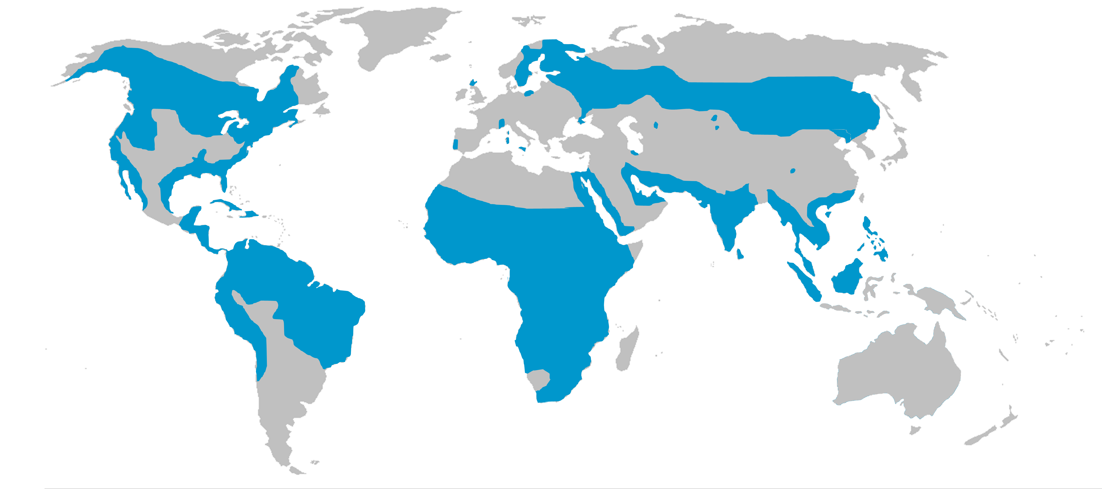 Osprey (Pandion haliaetus) range map.